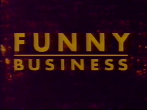 Screenshot of the it title image of the 1992 documentary television series "Funny Business (Laughing Matters)